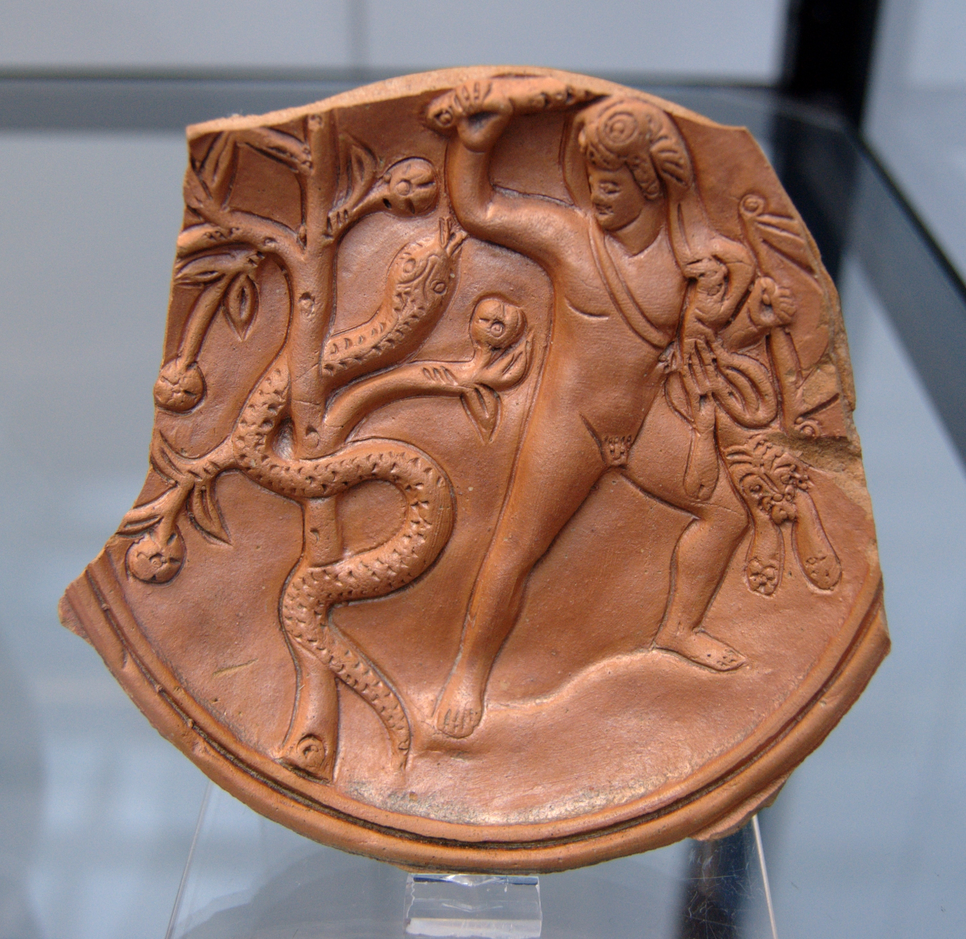 Heracles and Ladon guarding the tree of the golden apples. Roman relief of an oil lamp, late era.